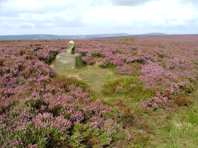 Stump Cross near Cockayne Situated on the track between Chop Gate and Bransdale. GRID REF SE6098